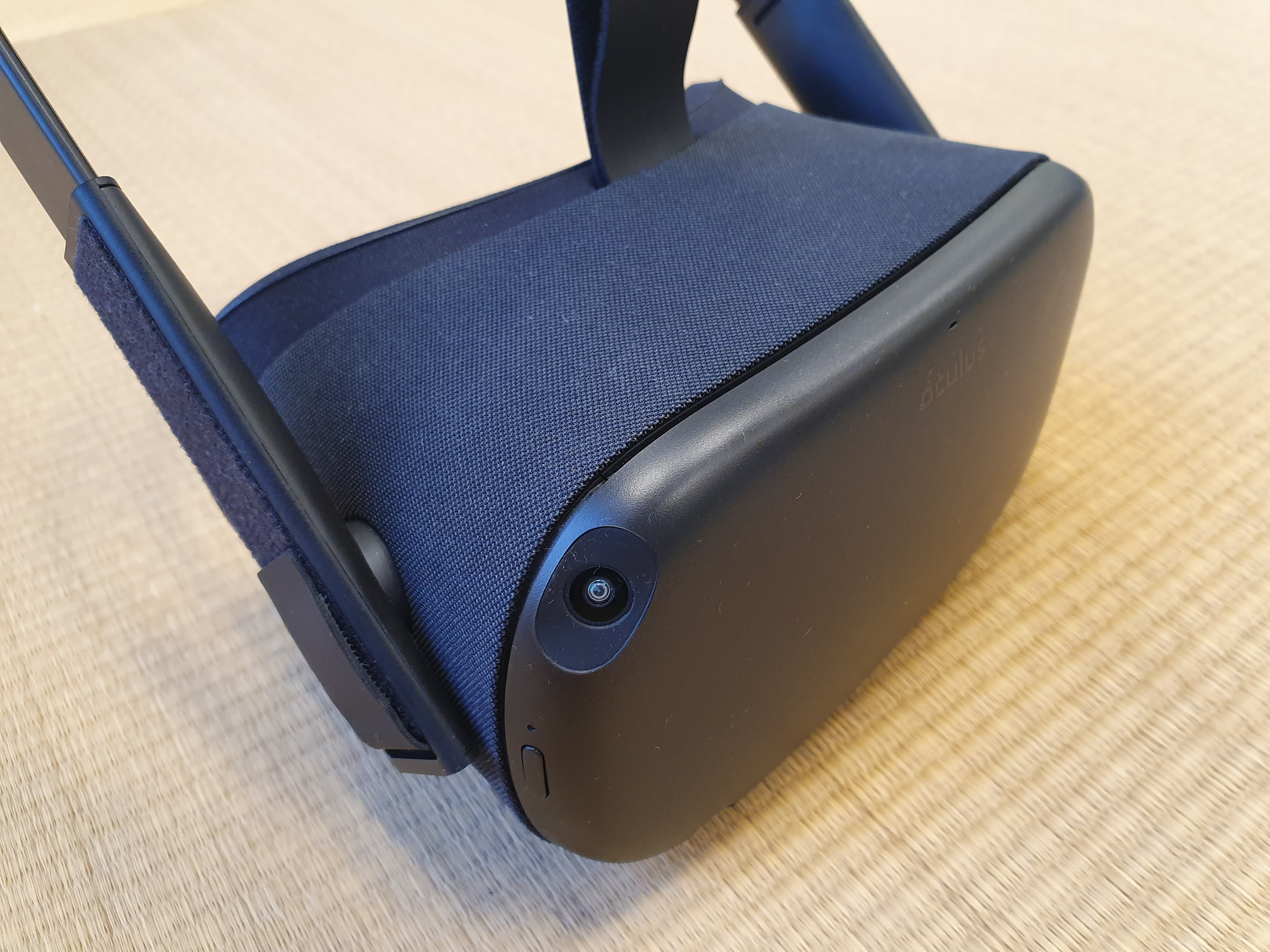 VR